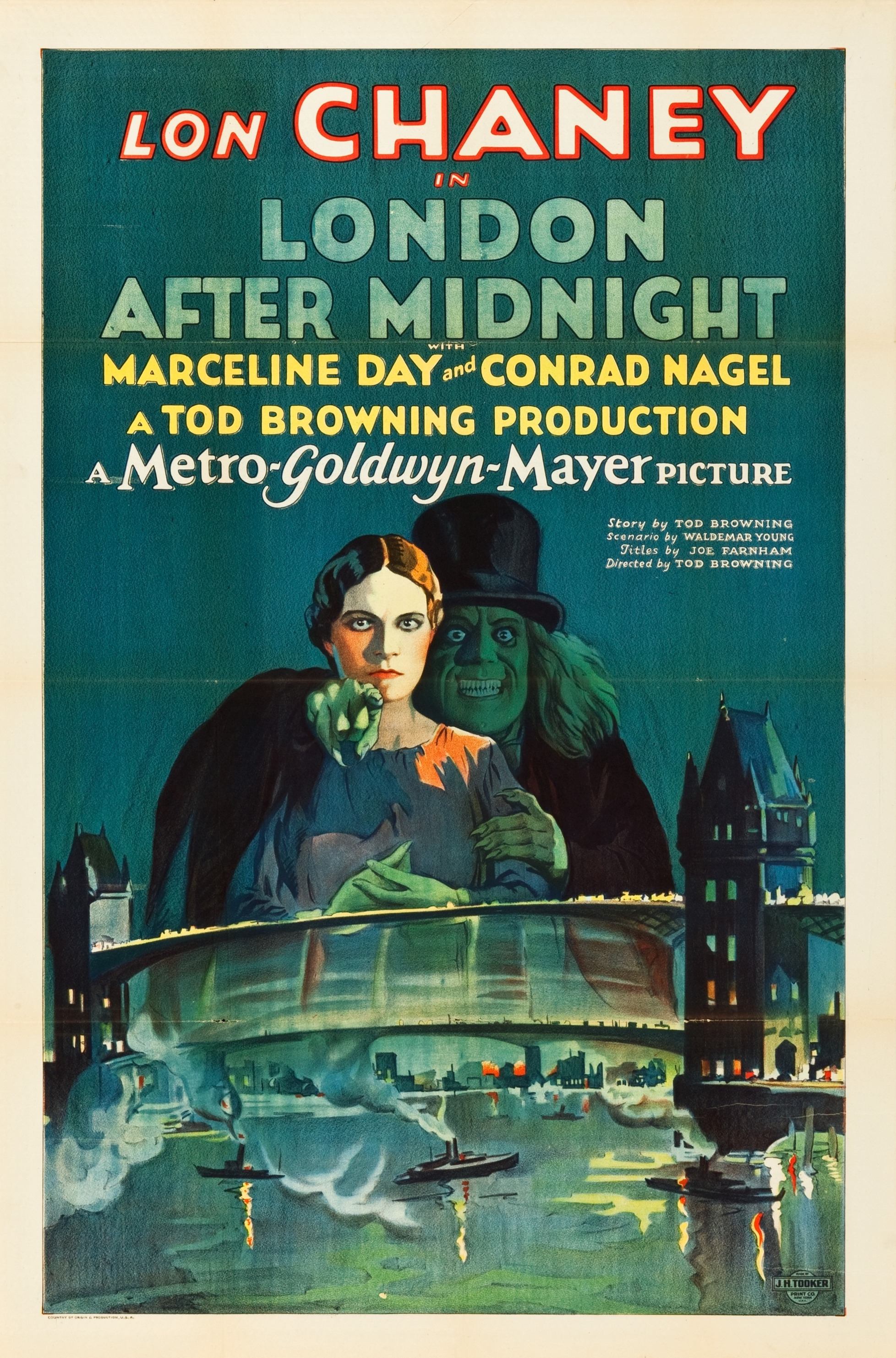 This is a poster for the American mystery film London After Midnight (1927). This is was Copyright by MGM.